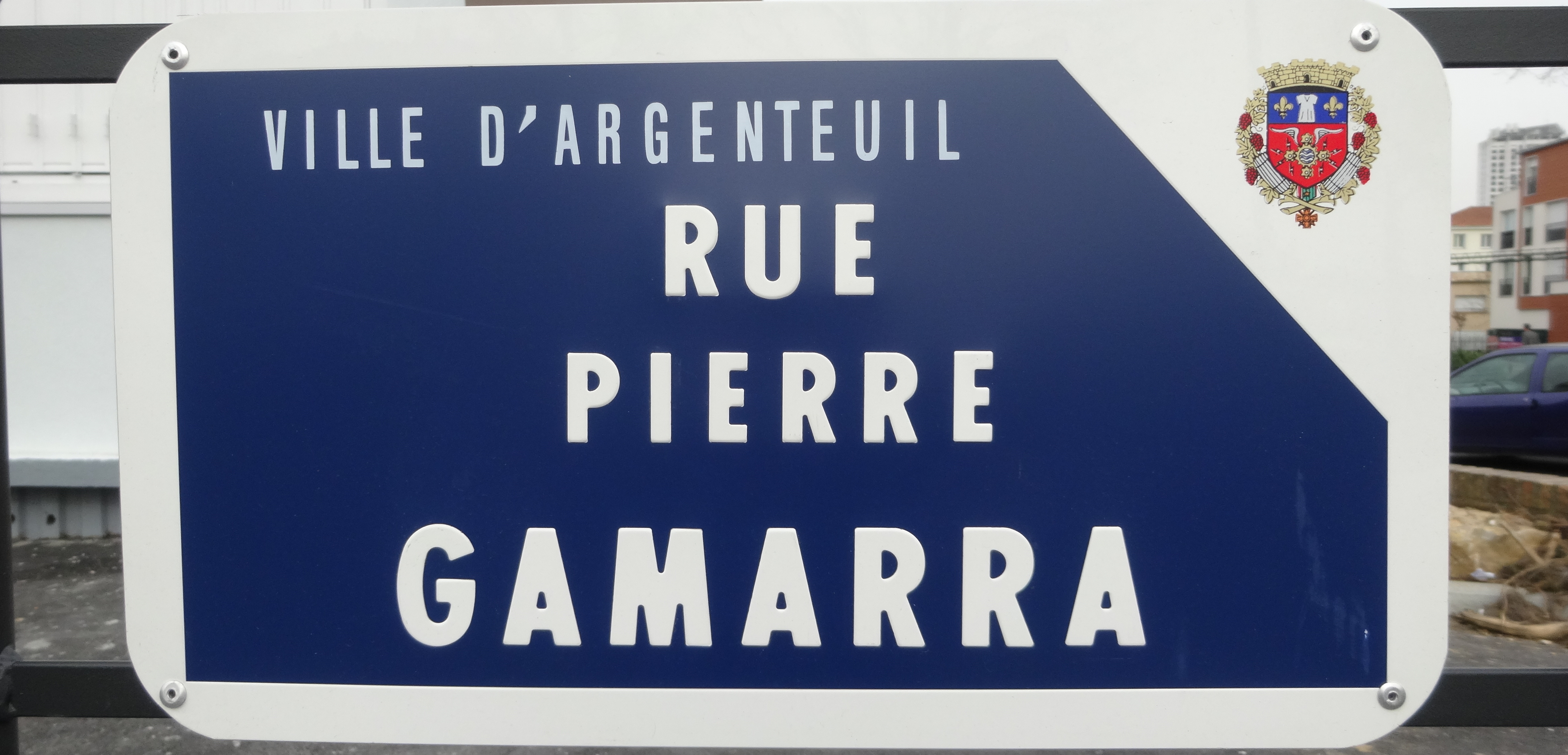 Pierre Gamarra St. Argenteuil (France, Val d'Oise)